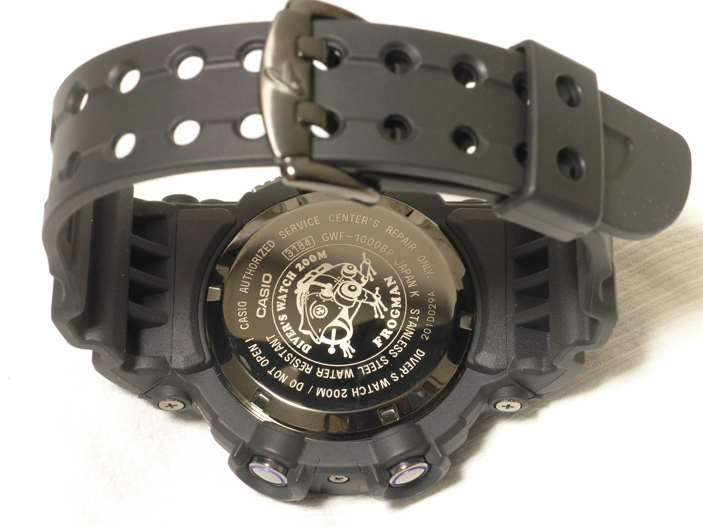 CASIO G-SHOCK FROGMAN GWF-1000BP-1JF